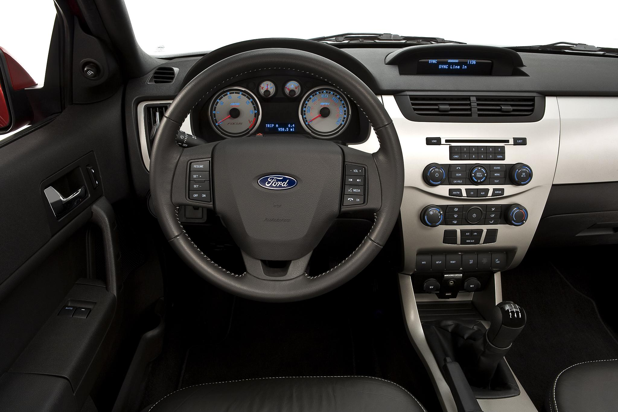 2009 Ford Focus Coupe